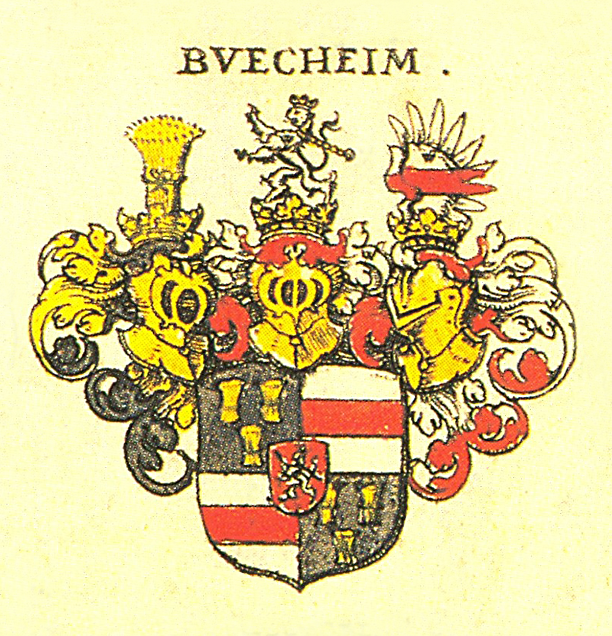 Coats of Arms of Buchheim (Puchheim)